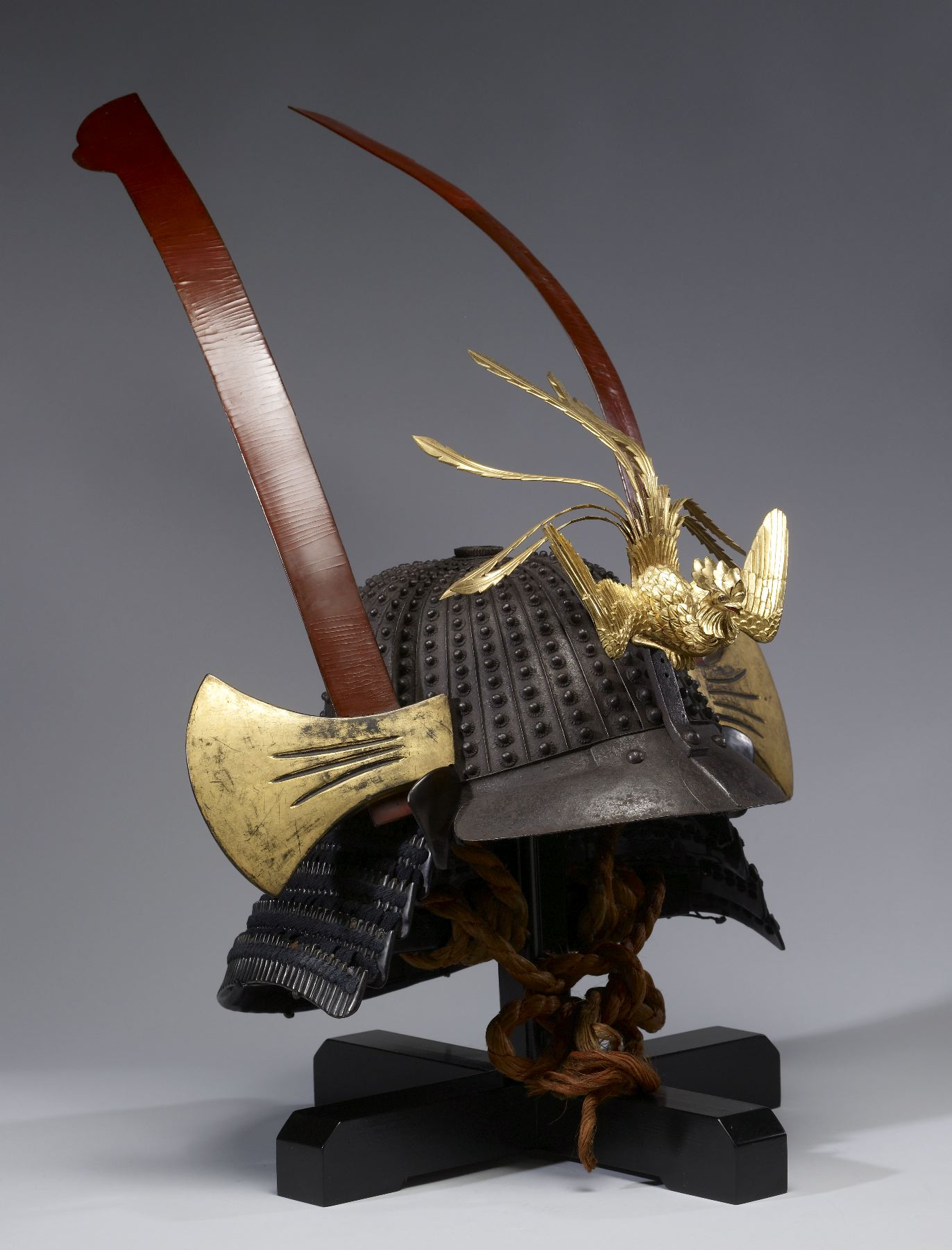 This helmet has an iron "hachi" of thirty-three riveted laminations, a "shikoro" of five plates laced in "kebiki" (spread hair) style with navy blue "ito doshi" laces, and axes as "yokodate" made from whale baleen. A Phoenix ("Ho o") serves as a "maedate;" one tail feather is missing. It is lined with rawhide.